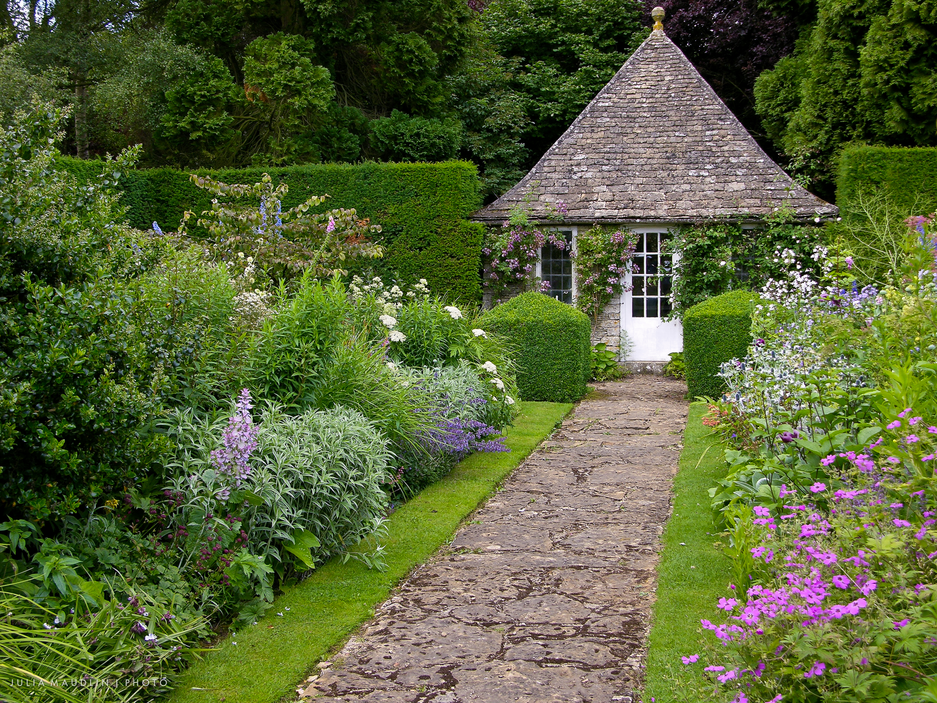 Rodmarton Summer House, Cotswolds, England